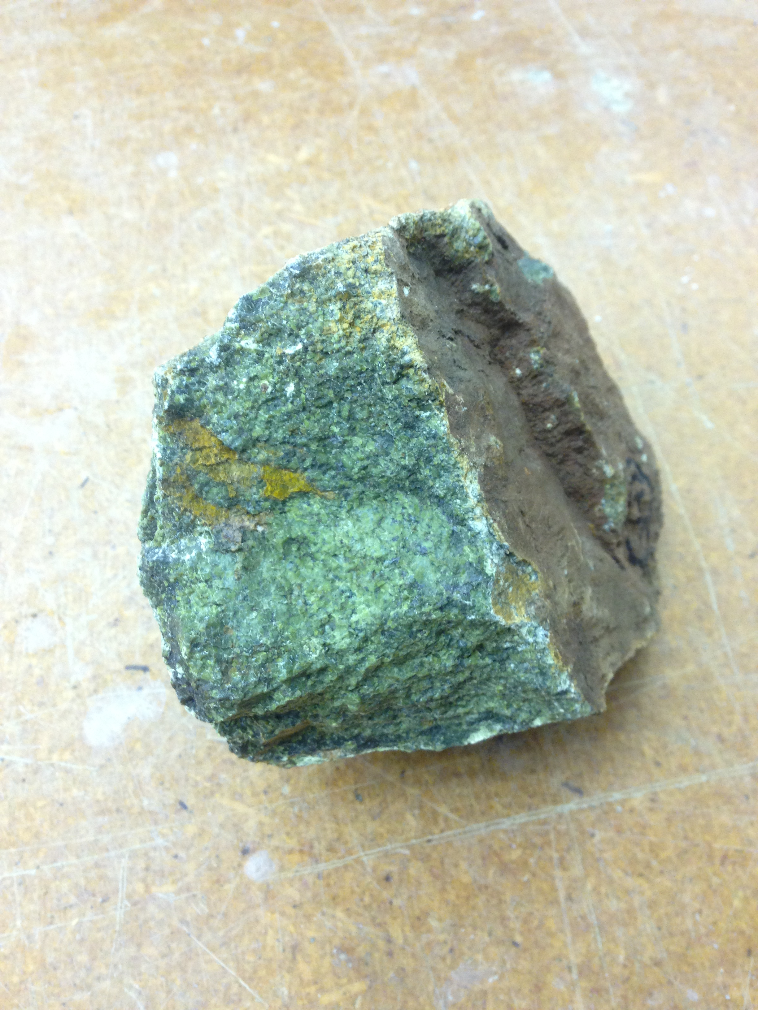 A dunite rock sample from Pilbara. Note the dark green color, which distinguishes it from granitic rocks in the region.